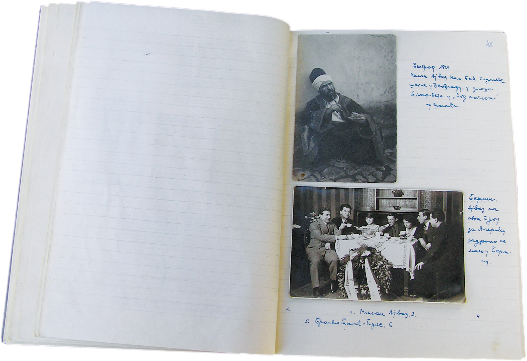 Page from book of manuscript Characters (1861–1941), by actor Stanoje Dušanović Srpski (latinica): Stranica iz rukopisne knjige Likovi (1861–1941) glumca Stanoja Dušanovića Српски (ћирилица): Страница из рукописне књиге Ликови (1861–1941) глумца Станоја Душановића